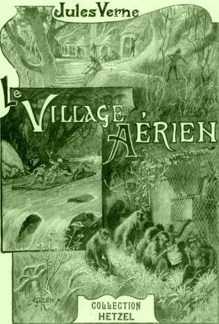 An illustration from Jules Verne's novel "The Village in the Treetops" (lit. "The Aerial Village", 1901) drawn by George Roux.